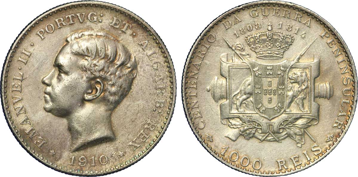 Reis à l'effigie d'Emmanuel II et célébrant le centenaire de la Guerre péninsulaire, 1910